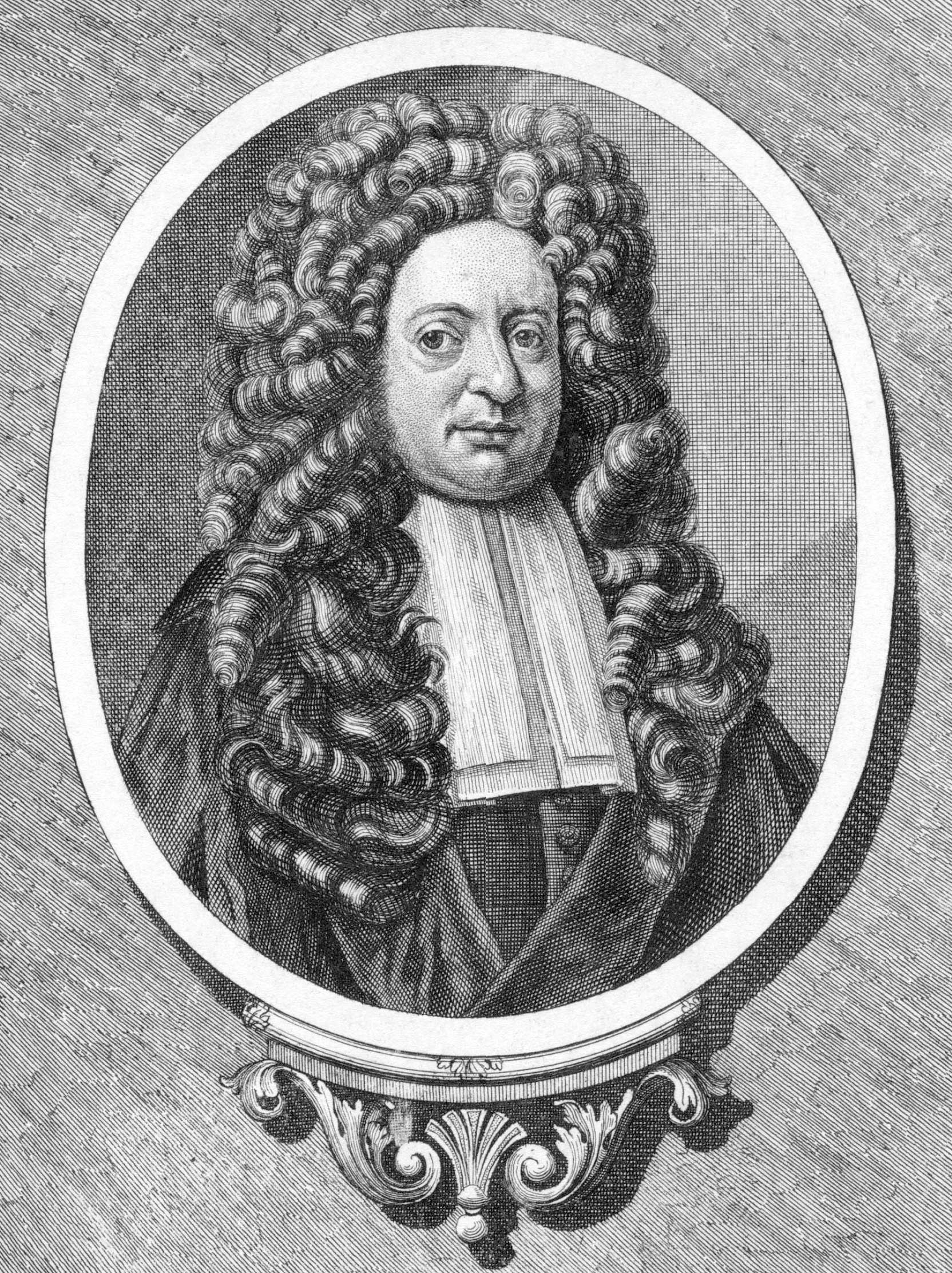 Jacobus le Mort (1650-1718) Nederlandse chemicus en arts